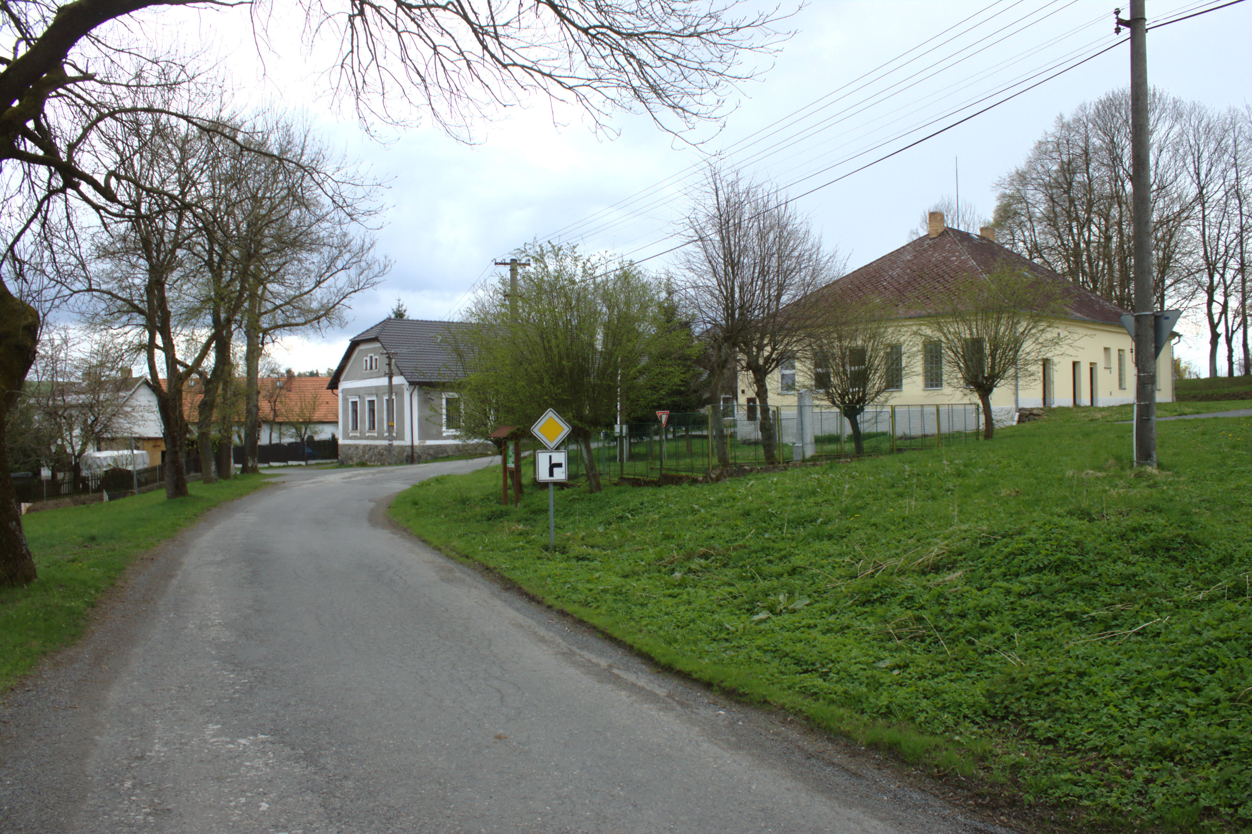 Buildings in the village of Štipoklasy, Plzeň Region, Cz